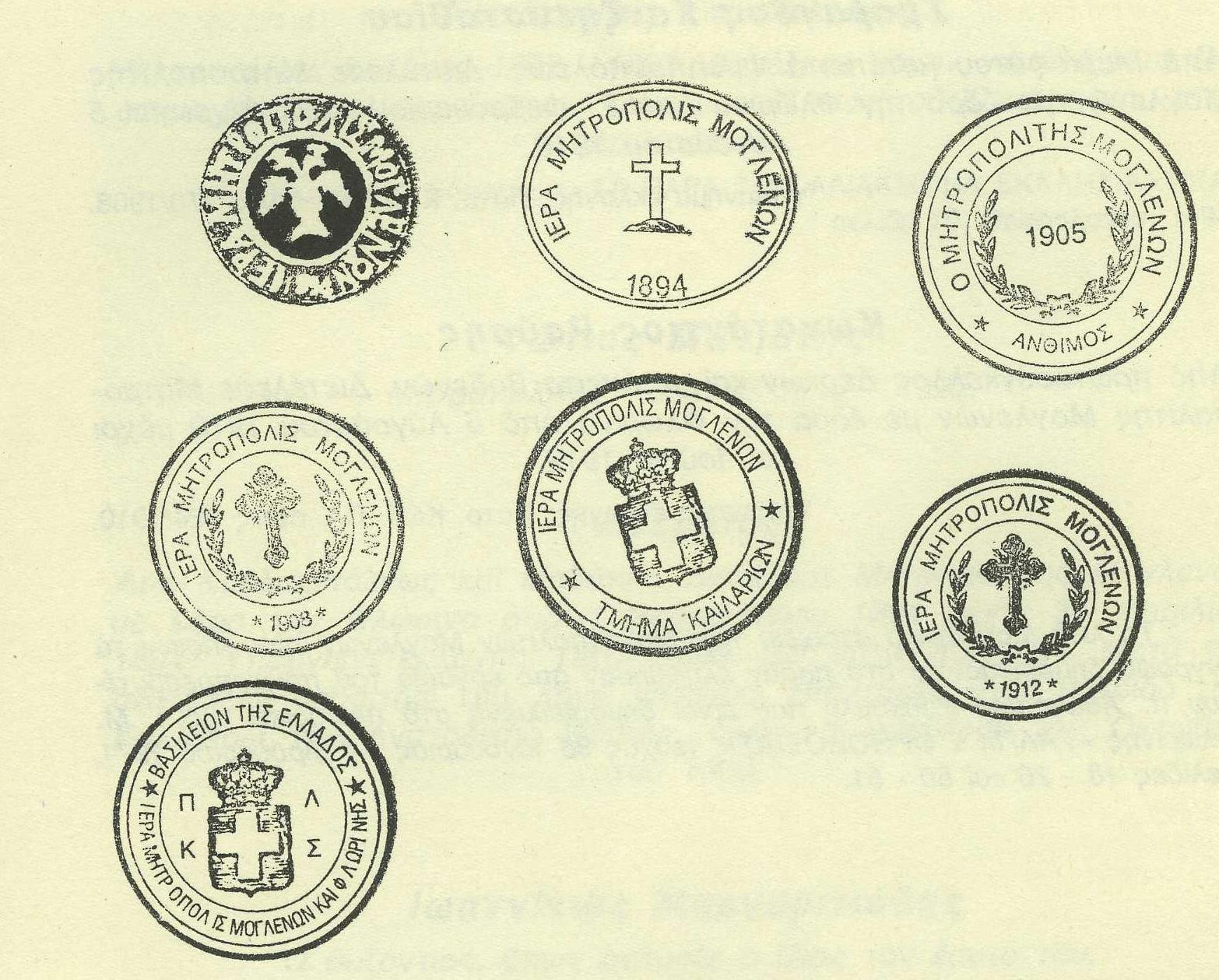 Seals of Moglen Mitropoly